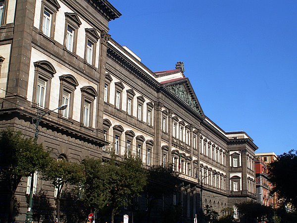 University of Naples. Private photo taken and uploaded by user Jeffmatt 13:40, 25 November 2006 (UTC) . No rights claimed.